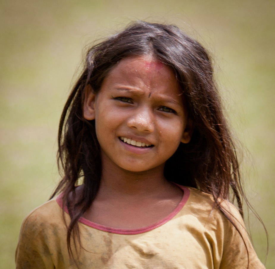 Parvis - Tansen